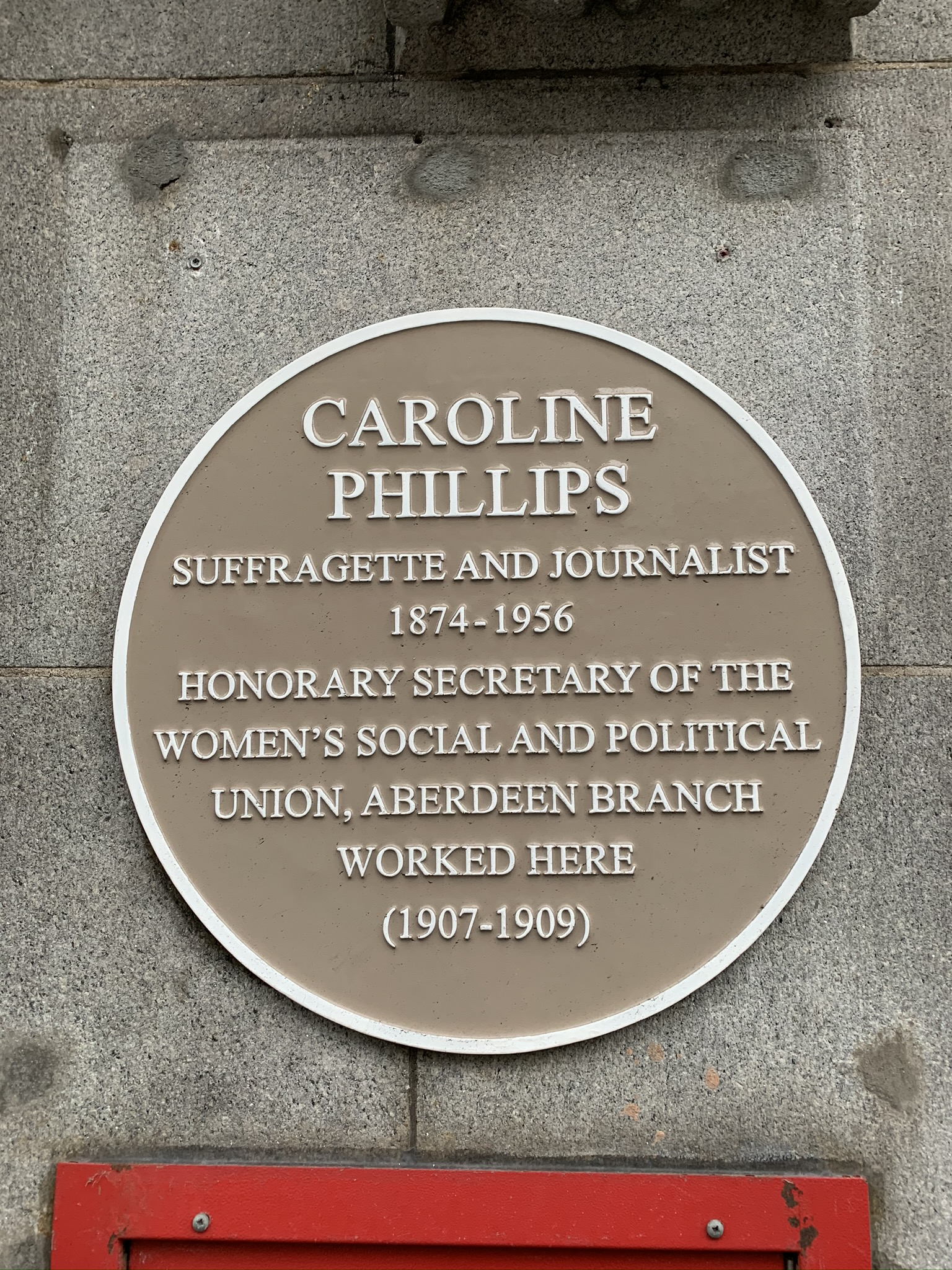 Caroline Phillips suffragette and journalist 1874-1956 worked at 41 Union St, Aberdeen. She was honorary secretary of the Women's Social and Political Union, Aberdeen Branch 1907-1909